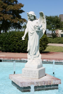 Firefighters Memorial in Texas City